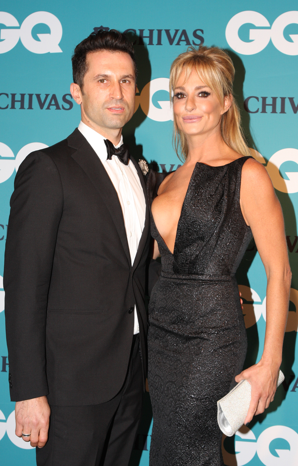 Taylor Armstrong